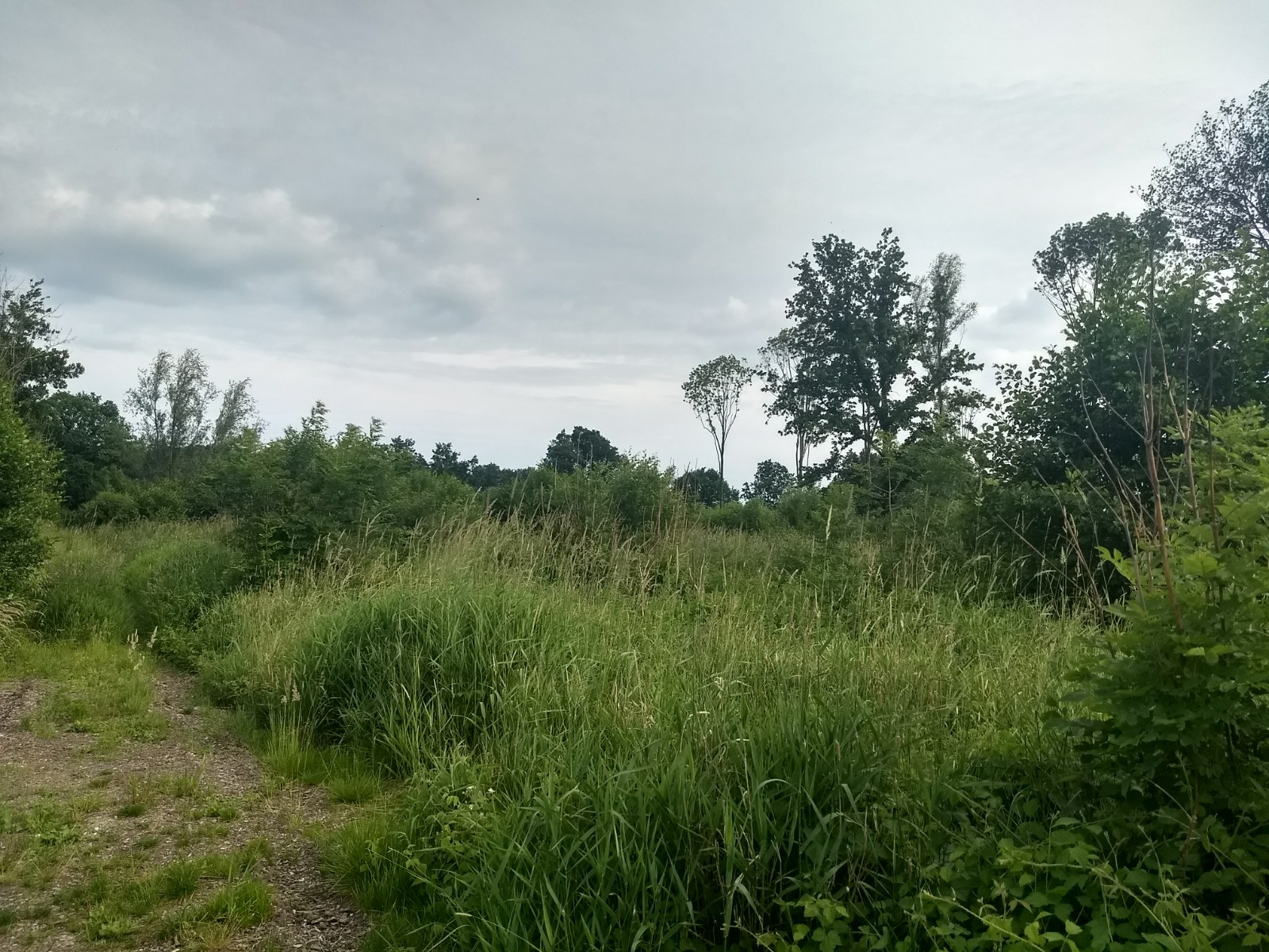 Overview of the ecosystem in Kolland and Overlangbroek